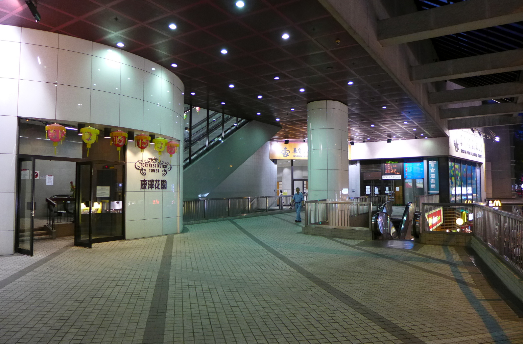 Fortress Metro Tower Level 1